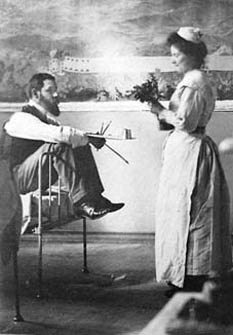 Henri Bellery-Desfontaines (1867-1909) was a French Art Nouveau painter, decorator and illustrator of posters, lithographs, tapestries, furniture, bank bills, etc.